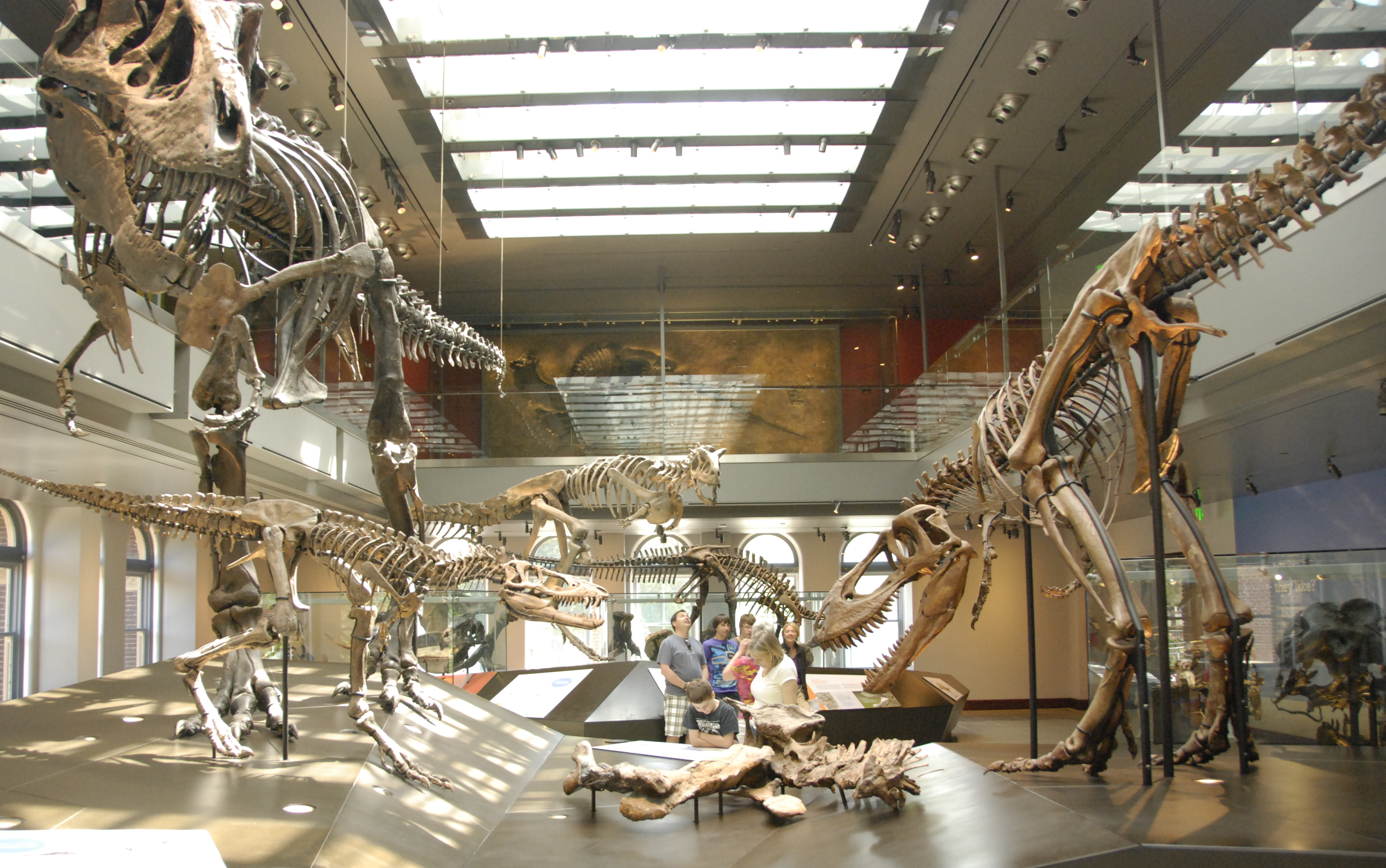 Los Angeles Natural History Museum Dinosaur Hall